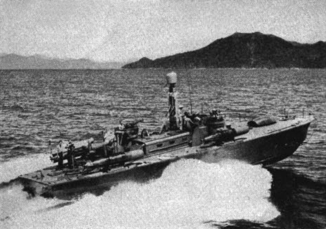 A radar-equipped U.S. Navy Elco 80' PT boat underway, circa 1945.